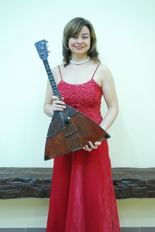 Photo of Russian balalaika virtuoso Elina L'vovna Karokhina / Элина Львовна Карохина